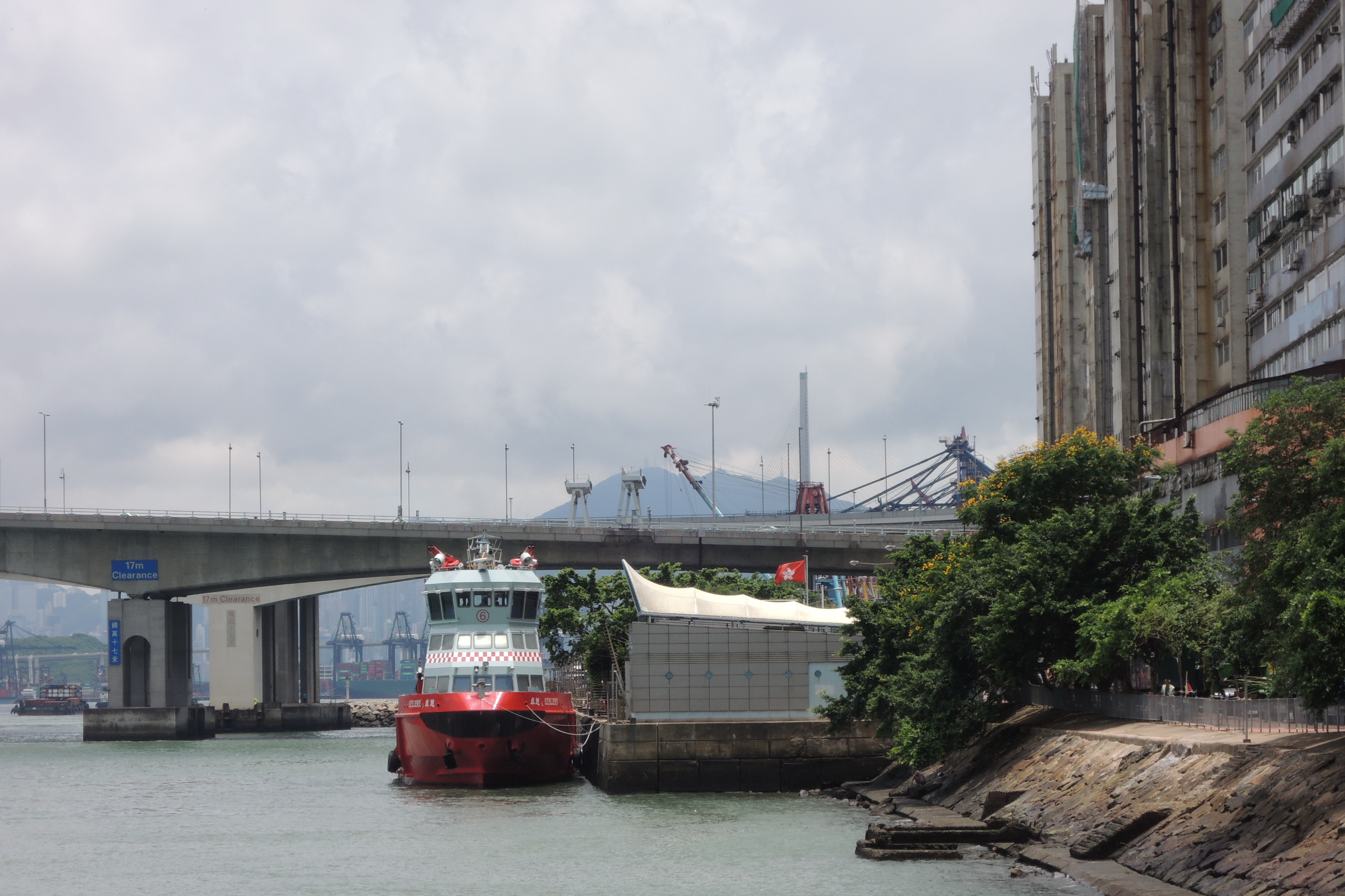 Excellence Fire Boat at the Tsing Yi Fireboat Fire Station, Hong Kong.